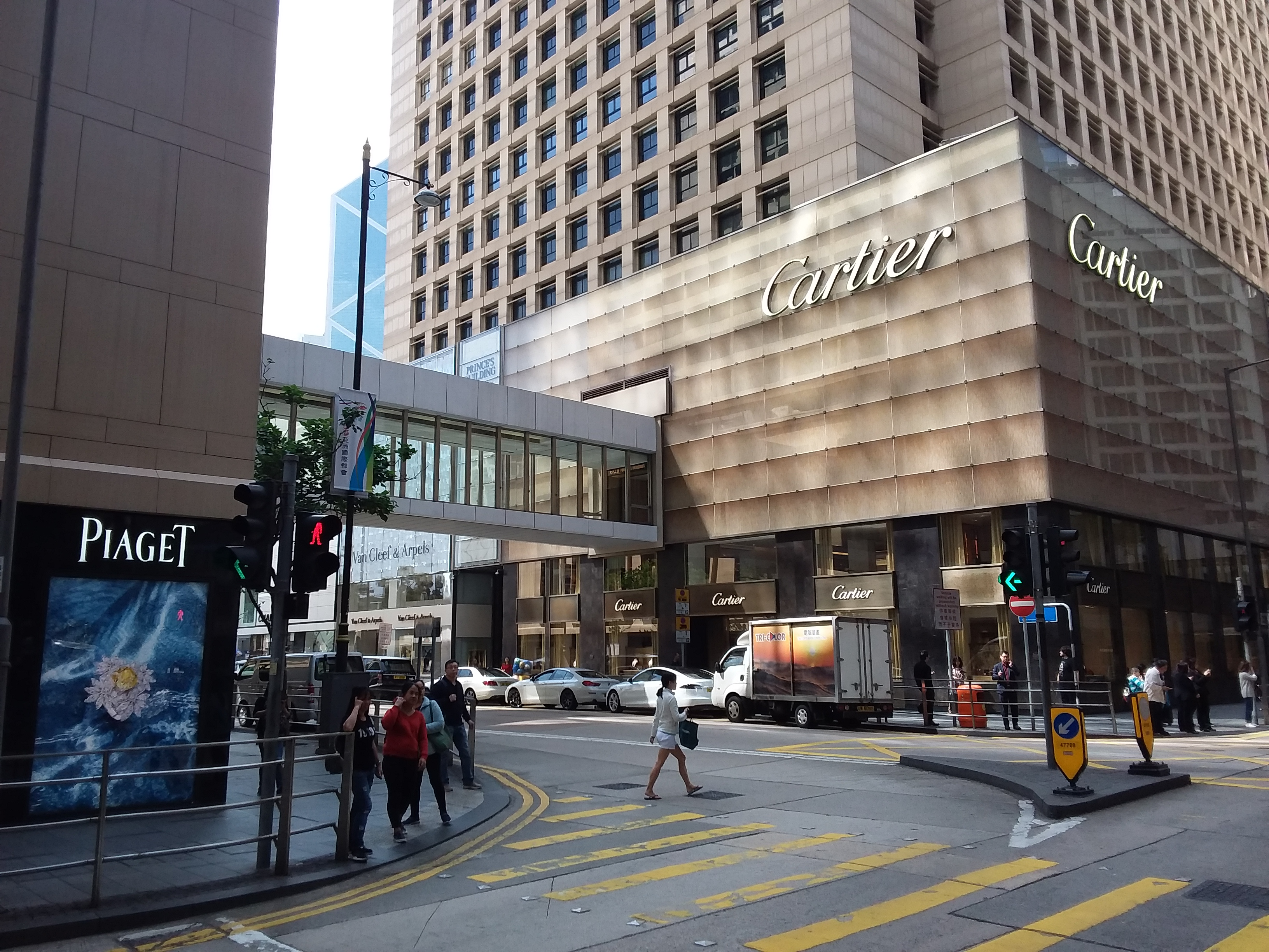 HK 中環 Central 遮打道 Chater Road in February 2019